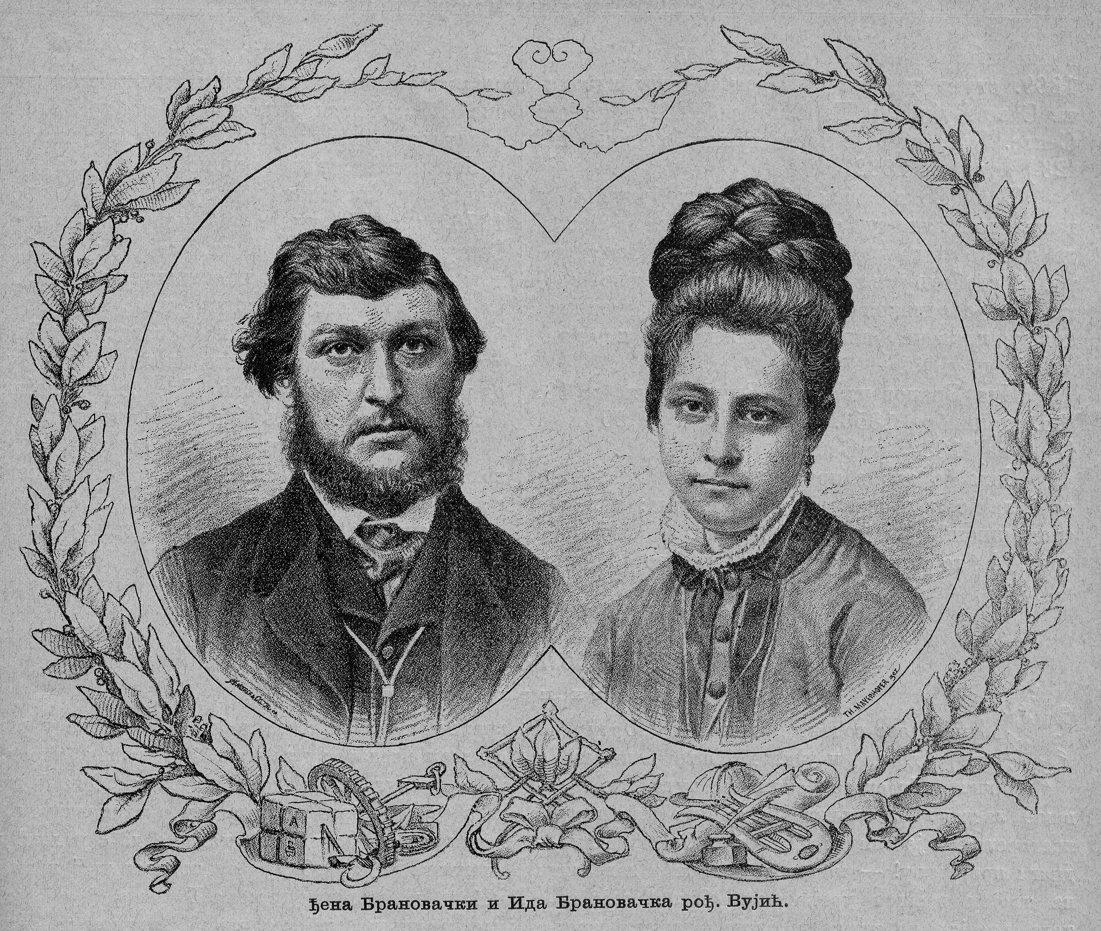 Evgenije-Đena and Ida Branovački, benefactors from Senta. Taken from the 1884 edition of the calendar Orao. Srpski (latinica): Evgenije-Đena i Ida Branovački, narodni dobrotvori iz Sente. Preuzeto iz izdanja kalendara Orao za 1884. godinu.